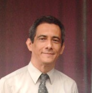 Fotografia del pastor general de Misión cristiana ELIM Mario Vega